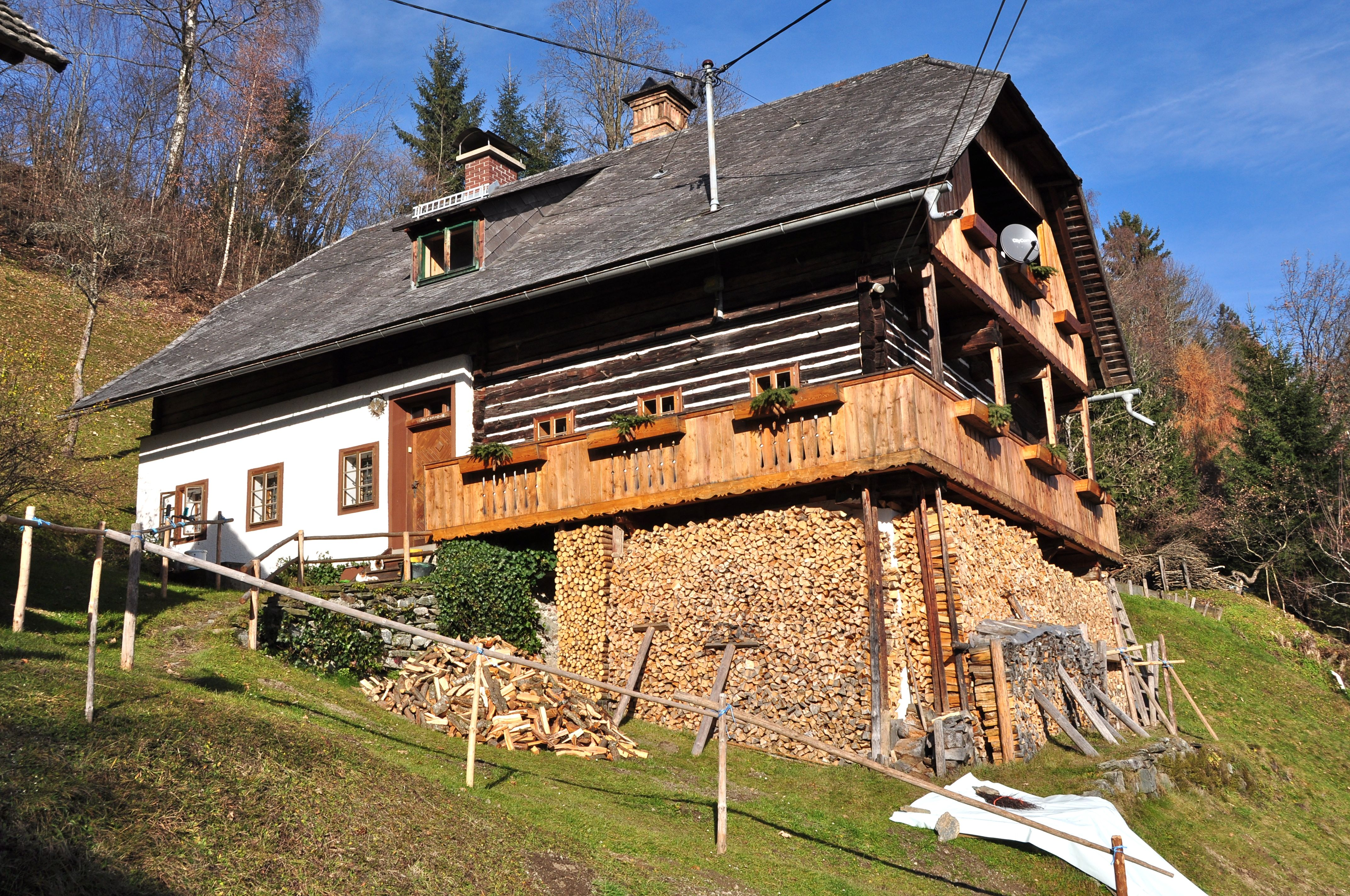 Farmhouse at Klatzenberg #6, municipality Himmelberg, district Feldkirchen, Carinthia / Austria / EU